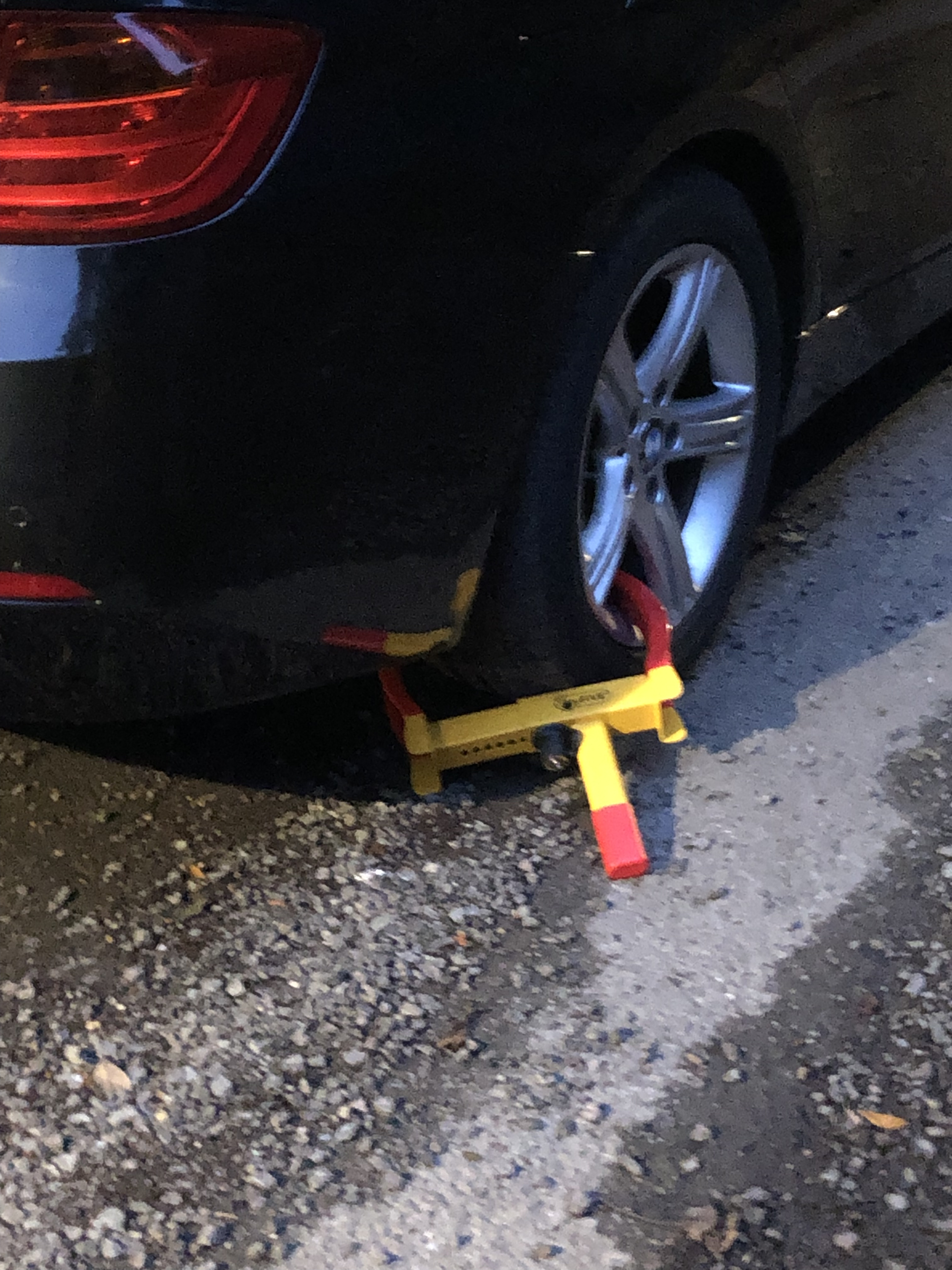 Car Wheel Clamped